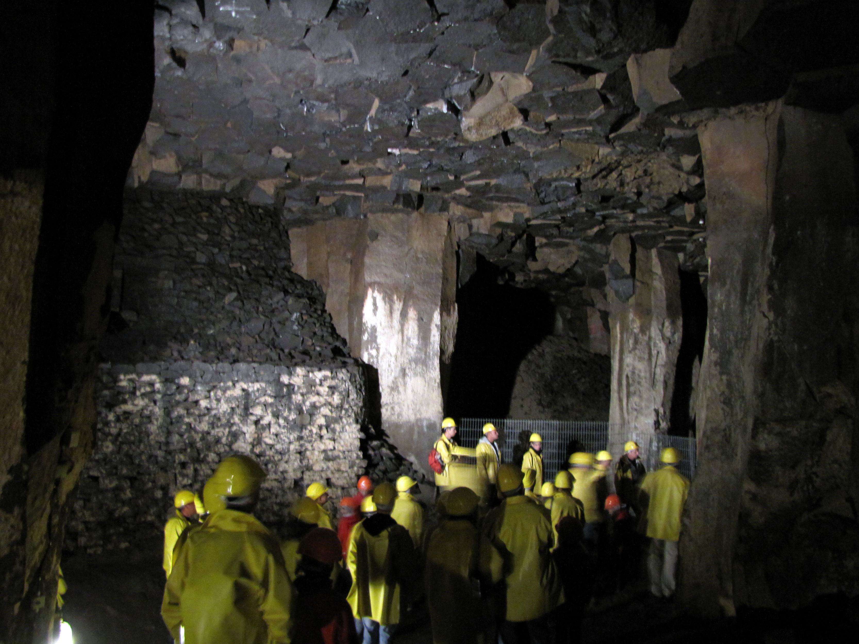 Lavakeller in Mendig